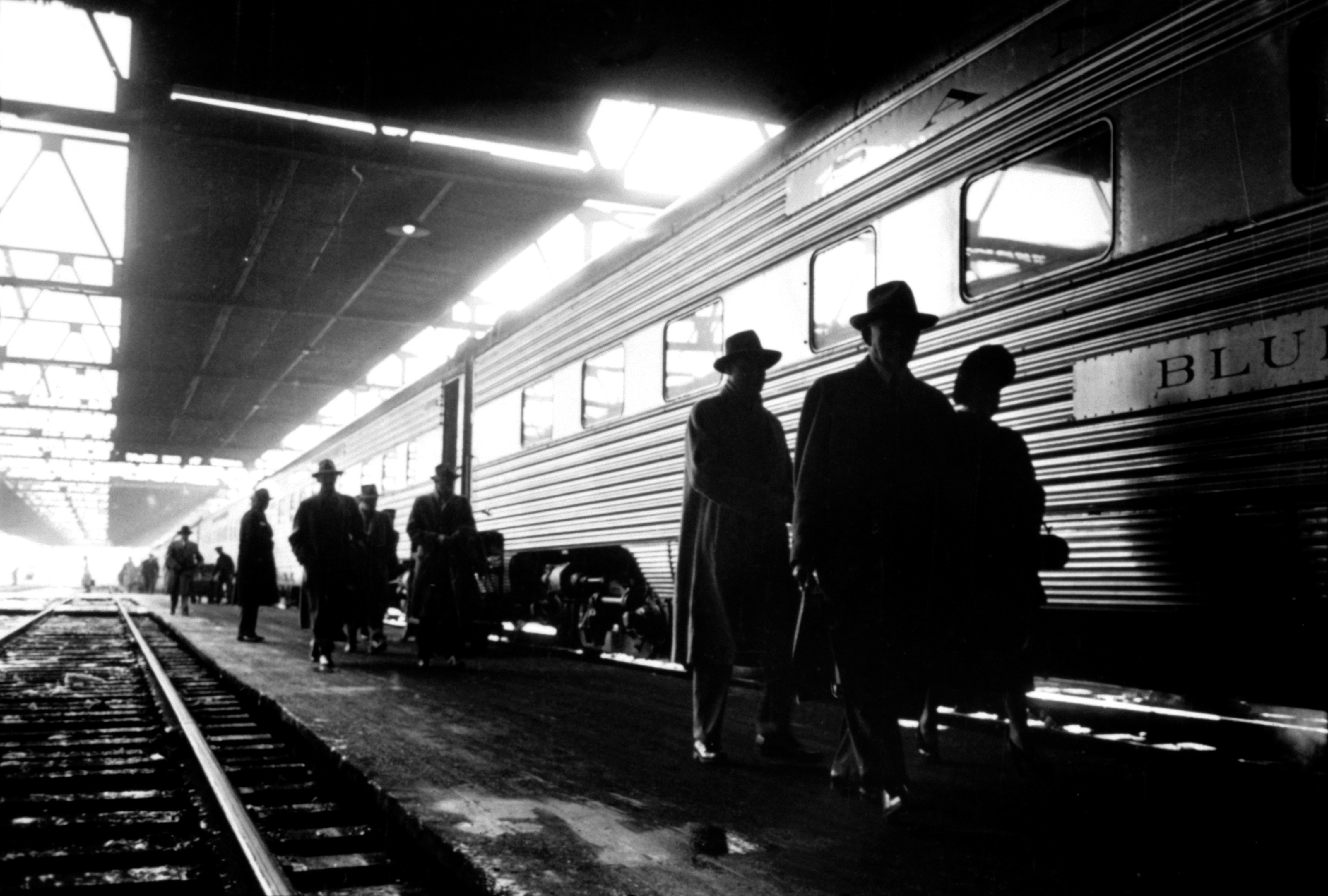 Men (and a woman), probably commuters, walking along a platform next to a train in Chicago, Illinois. The near car is probably a "Blue-series" sleeping car from Pullman-Standard, manufactured by Pullman-Standard for the Super Chief in 1947-1948. Each "Blue-series" had 10 roomettes, 2 compartments and 3 double bedrooms.